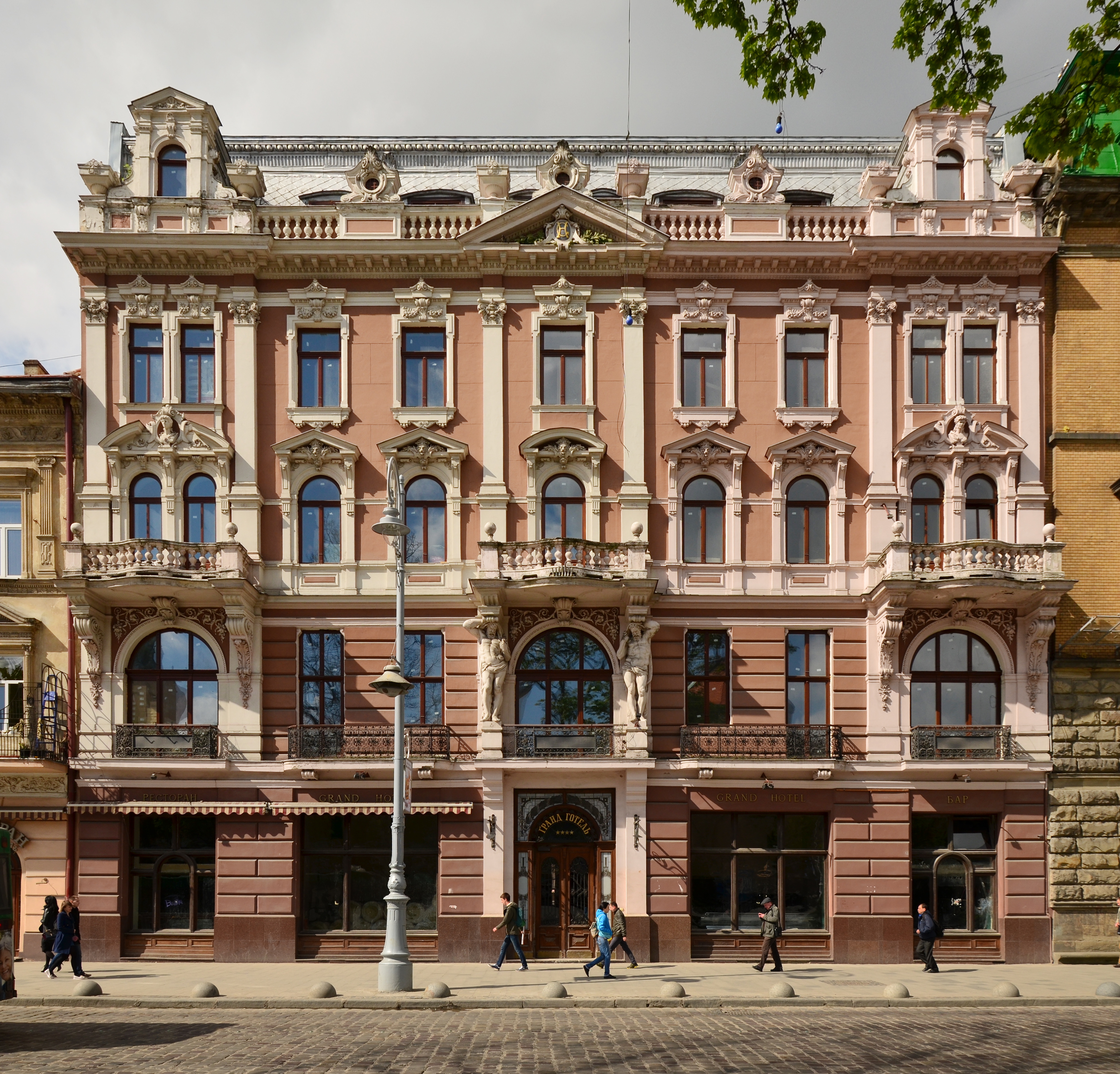 13 prospekt Svobody, Lviv.